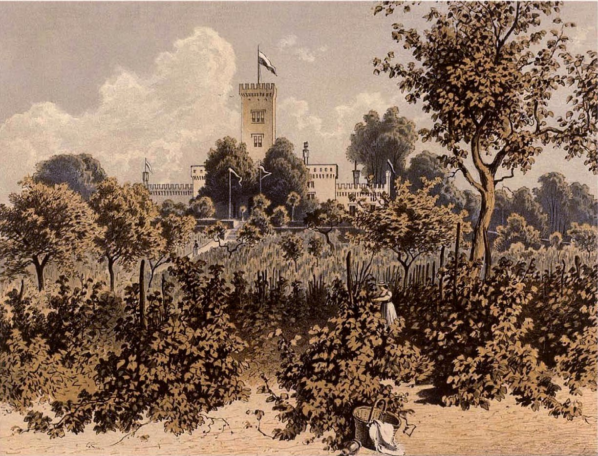 Non-existent castle in Babimost.